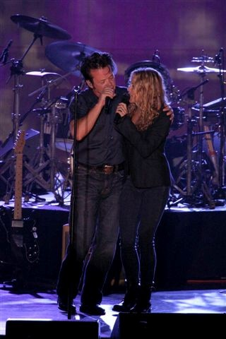 John Mellencamp and Sheryl Crow duet on Mellencamp's 2008 single "My Sweet Love" live in Hunter Valley, New South Wales, Australia on Nov. 29, 2008.